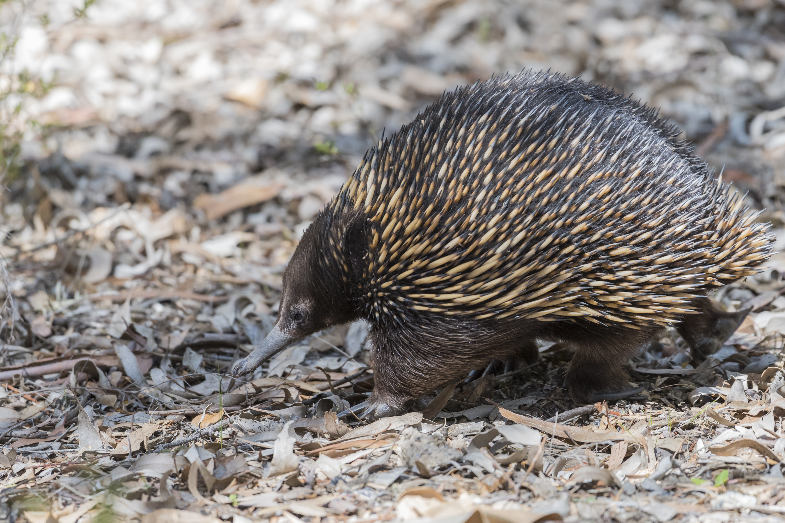 Short-beaked echidna in Australian National Botanic Gardens, Canberra